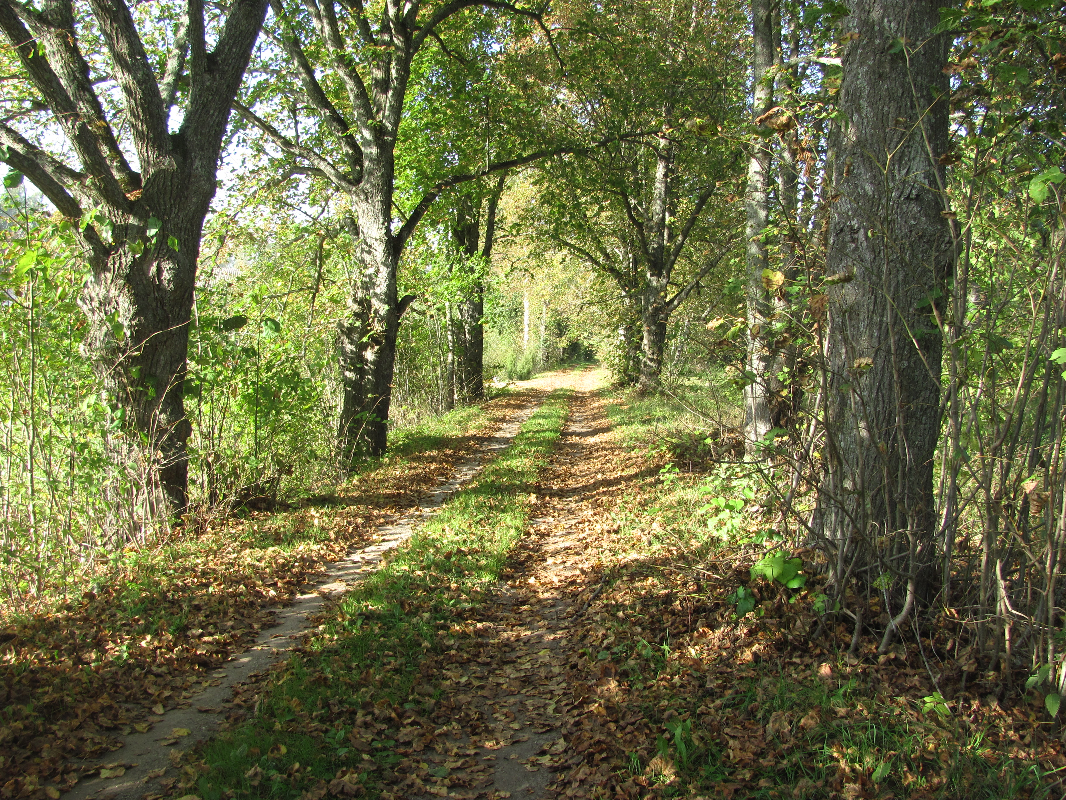 Turmanto sen., Lithuania